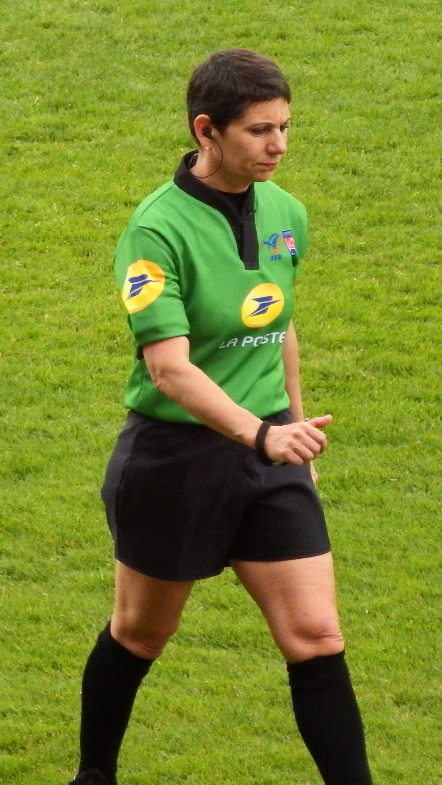 Pro D2 2016-2017 — 7 May 2017, Stade Jean-Alric. Match between: Stade aurillacois — US Dax